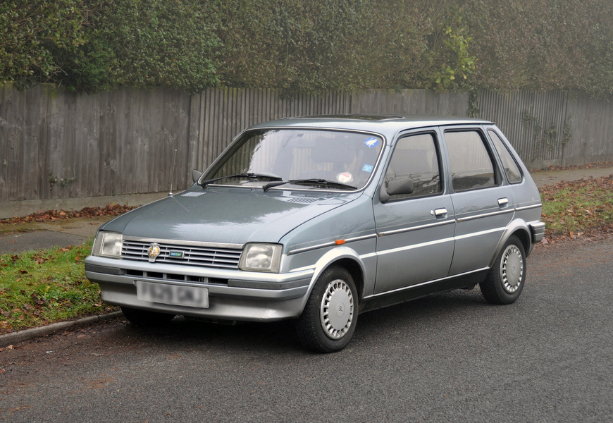 Bicoloured Austin Metro Vanden Plas Automatic, registred in September 1988.